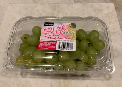 This is a photo of Cotton Candy branded grapes, licensed to grower The Grapery from grape breeder International Fruit Genetics